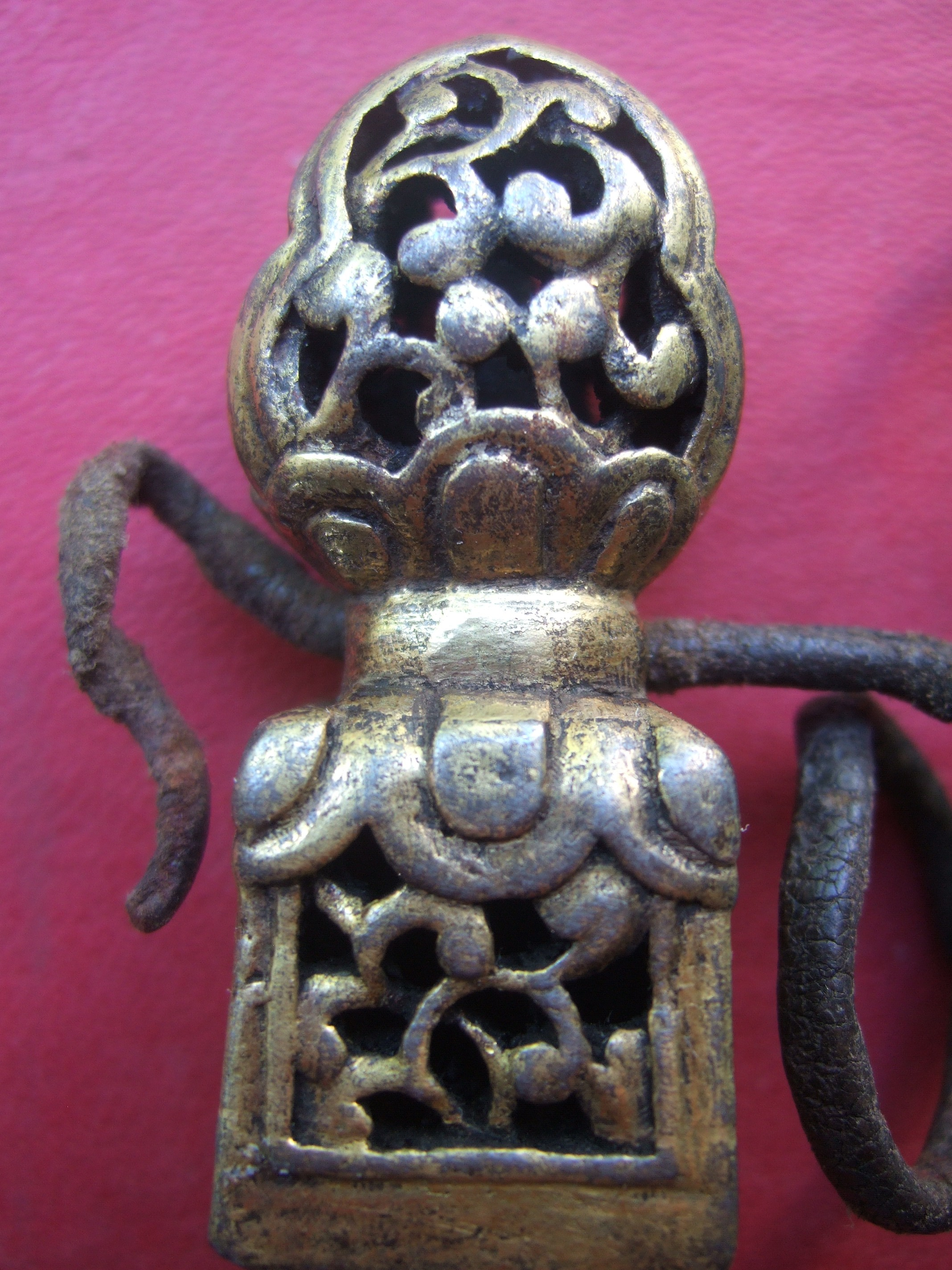 Tibetan seal with open work decoration, no. 3